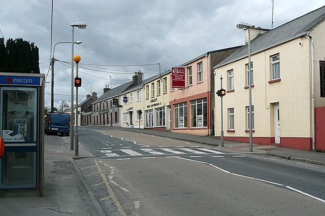 Craughwell This is the main road through the centre, the N6 Galway to Loughrea road. I had to wait some time before there was no traffic to block the view.